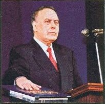 Inauguration of Heydar Aliyev, President of Azerbaijan (1993)